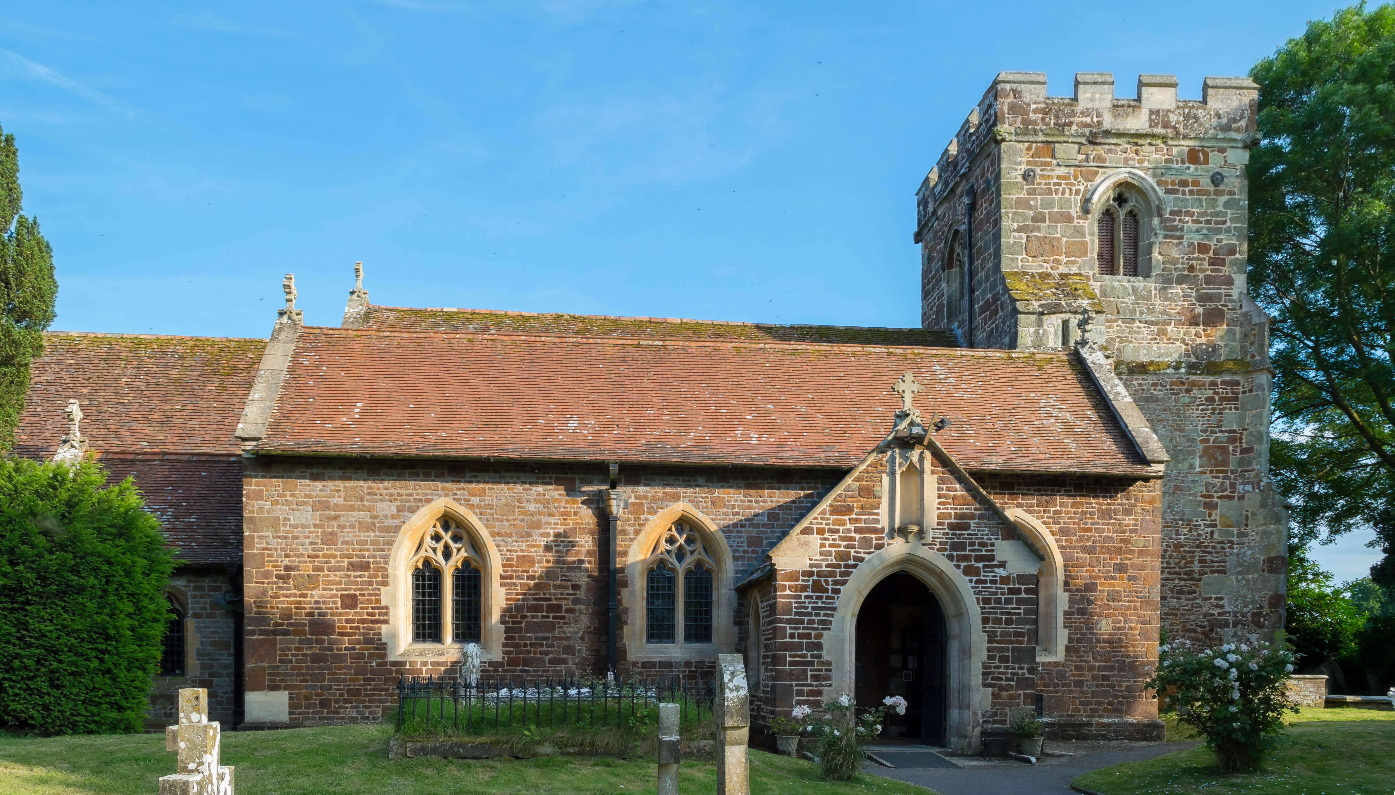 The historic church of All Saints, Hampreston, Dorset